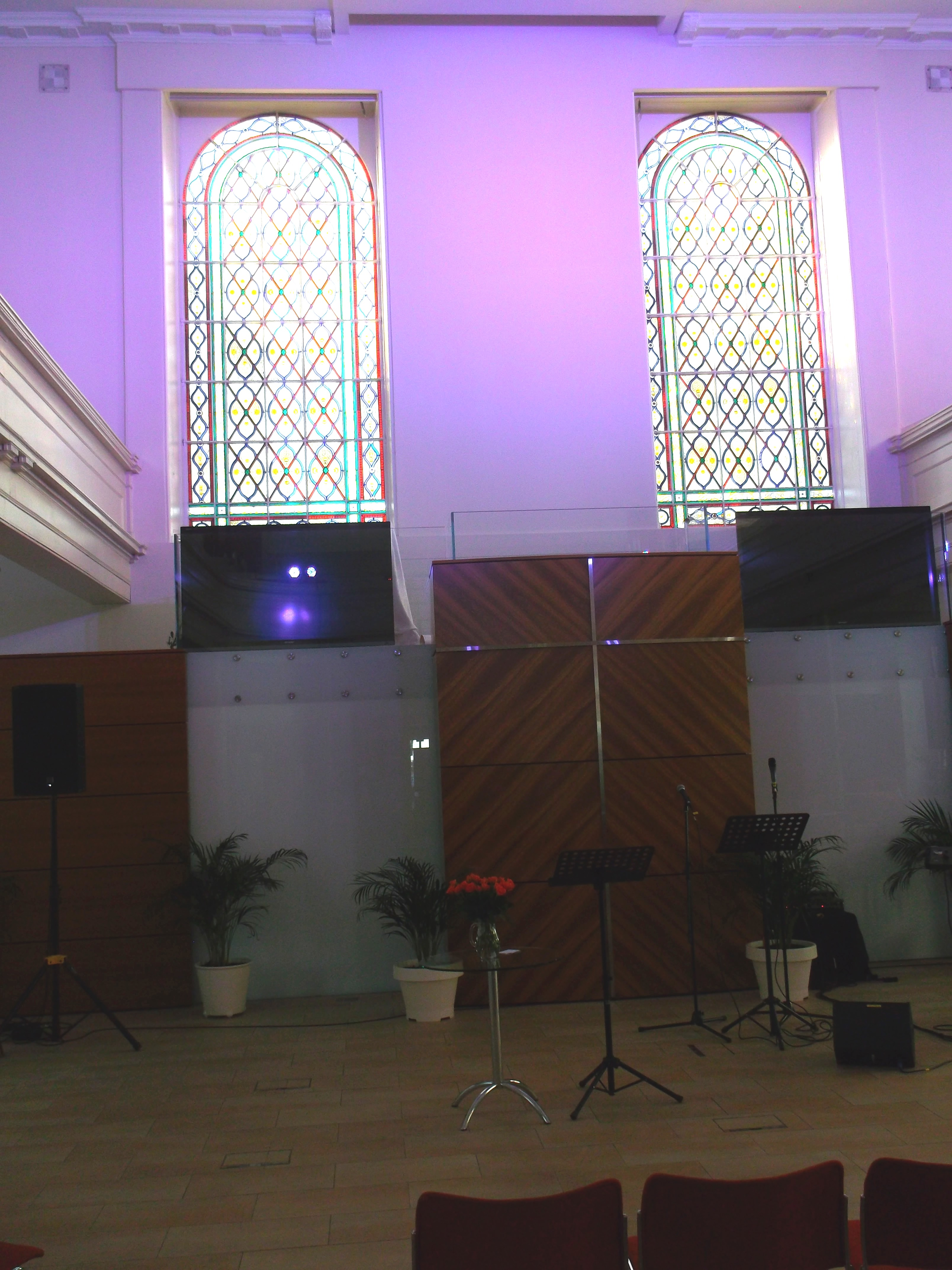 St George's Tron Church, 163 Buchanan Street, Glasgow G1 2JX. Built in 1807 to a design by William Stark. Refurbished in 2009 when the interior was modernised. Wikidata has entry Q17568178 with data related to this building.